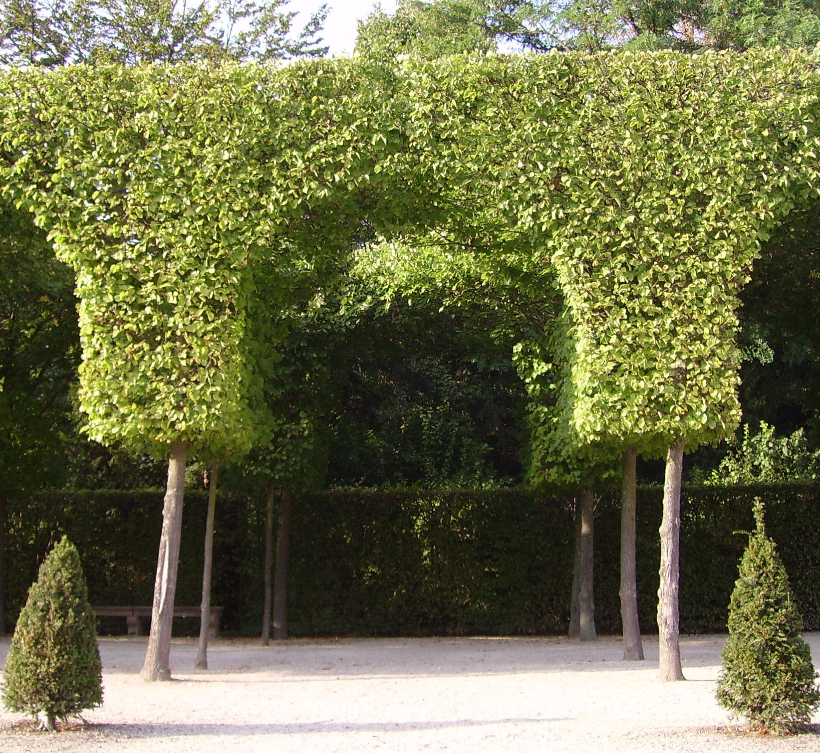 Lindenarkaden im Französischen Garten des Schwetzinger Schlossgartens